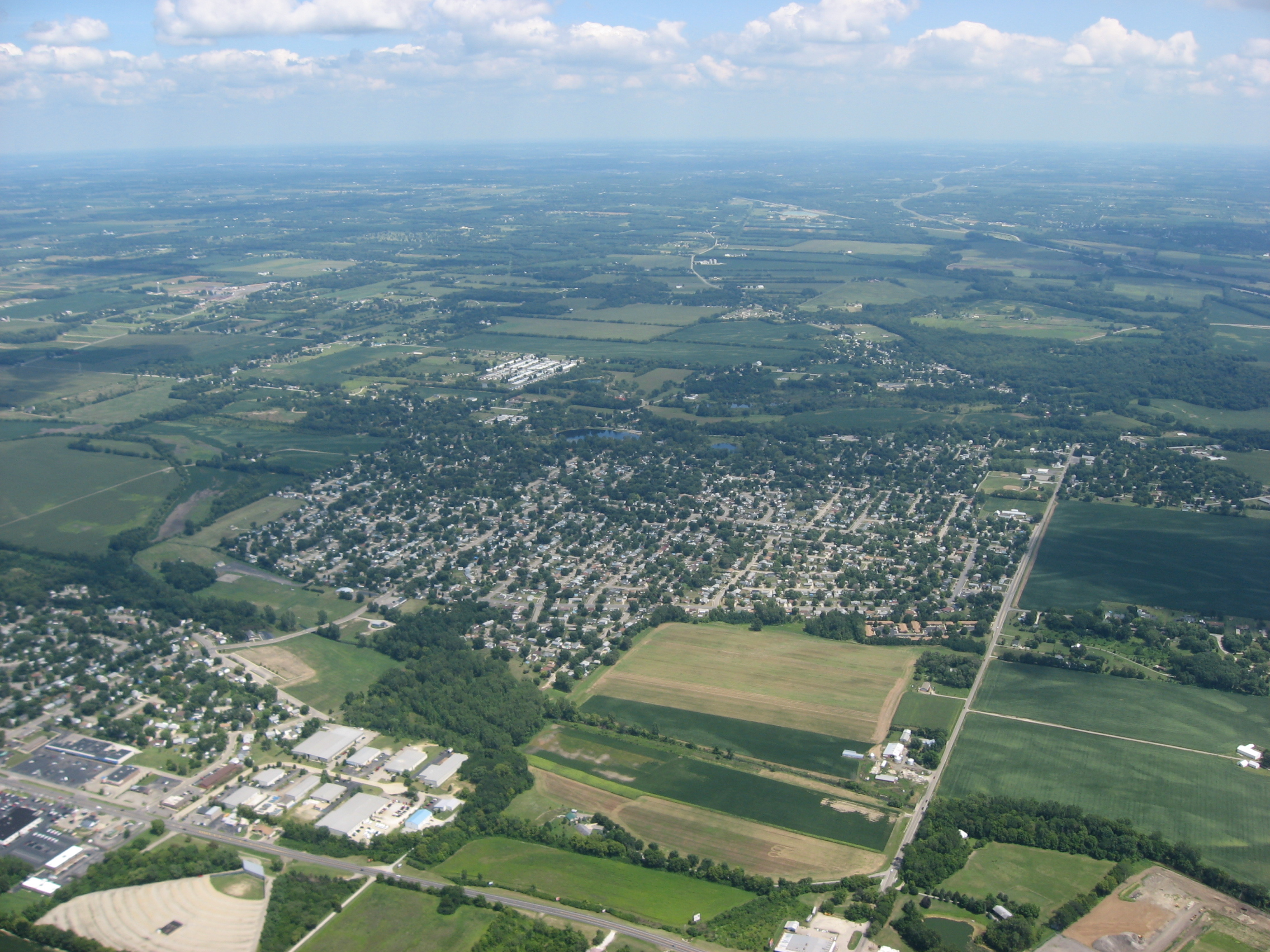 Aerial view of Crystal Lakes, a census-designated place in southeastern Clark County, Ohio, United States. Picture taken from a Diamond Eclipse light airplane at an altitude of 3,540 feet MSL and a bearing of approximately 75º.